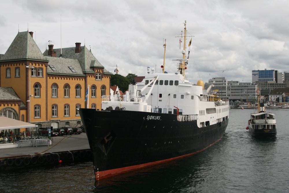 Sjøkurs IMO Number: 5289247 MMSI Number: 258321000 Callsign: LAVN Length: 84 m Beam: 17 m